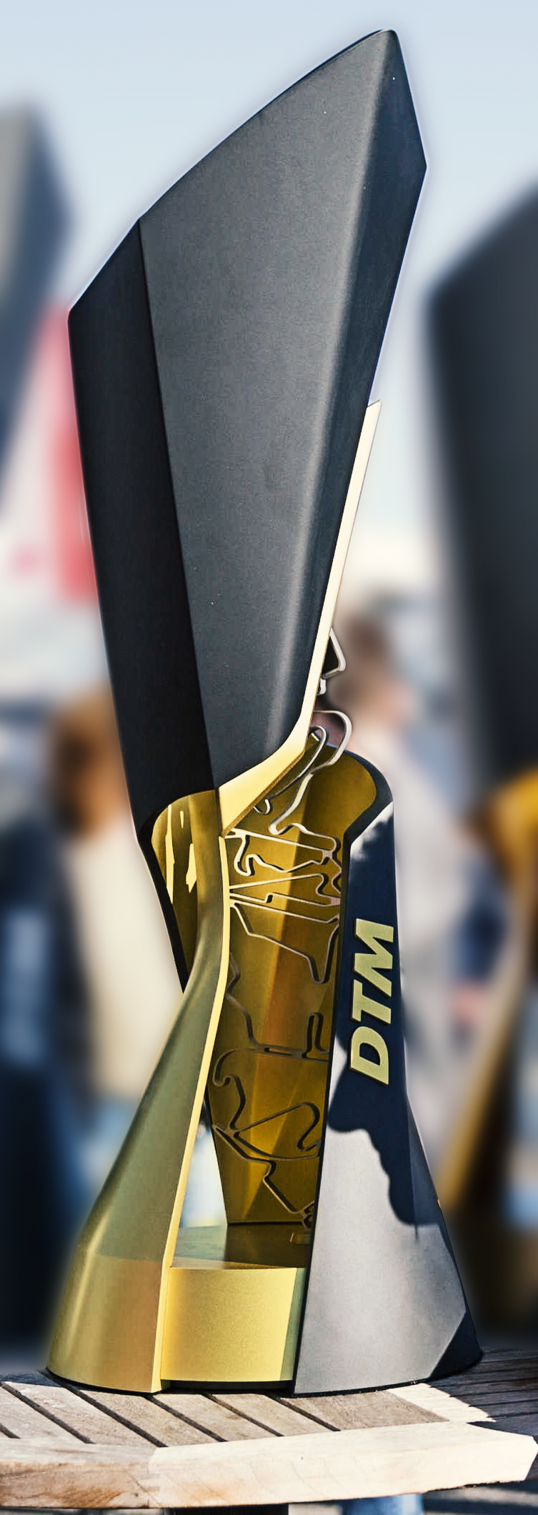 This is the DTM Trophy since 2017, after Erik Ulbricht won the DTM Trophy Competition with this design. Rene Rast was the winner at the end of the season and received this trophy at Hockenheim.